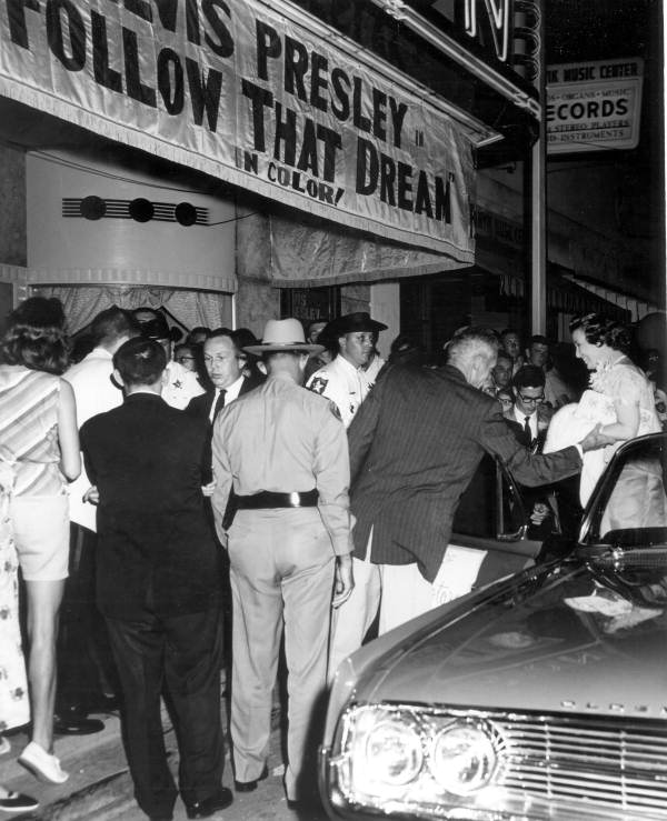 Mrs. Farris Bryant arriving at premiere of Elvis Presley's Follow That Dream, Ocala, Florida